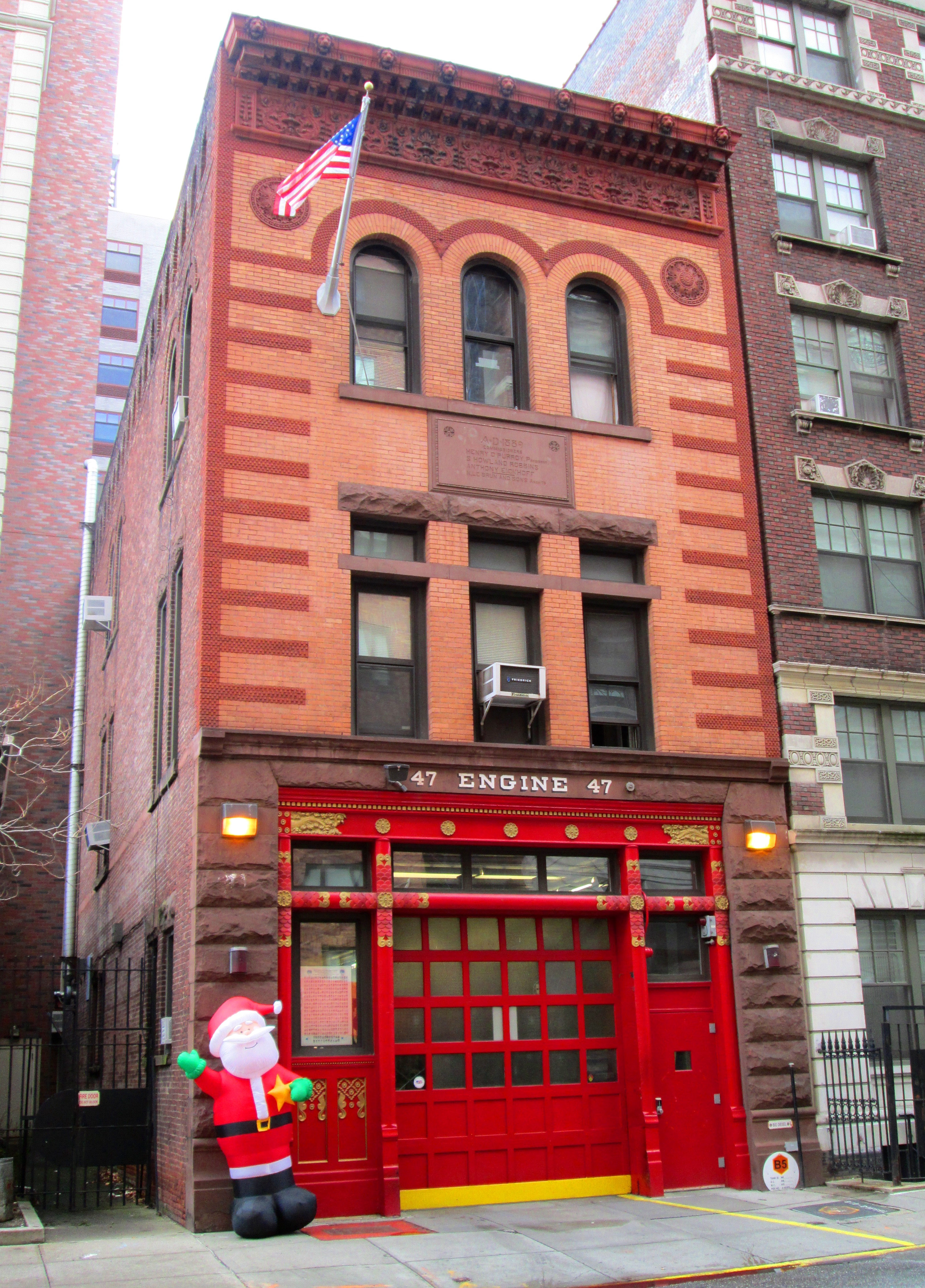 The Engine Company 47 firehouse at 500 West 113th Street between Amsterdam Avenue and Broadway in the Morningside Heights neighborhood of Manhattan, New York City, was built in 1899-90 and designed by Napoleon Le Brun & Sons combining Romanesque Revivals and neoclassical details. It has been in use since 1891. (Sources Guide to NYC Landmarks (4th ed.) and AIA Guide to NYC (5th ed.))